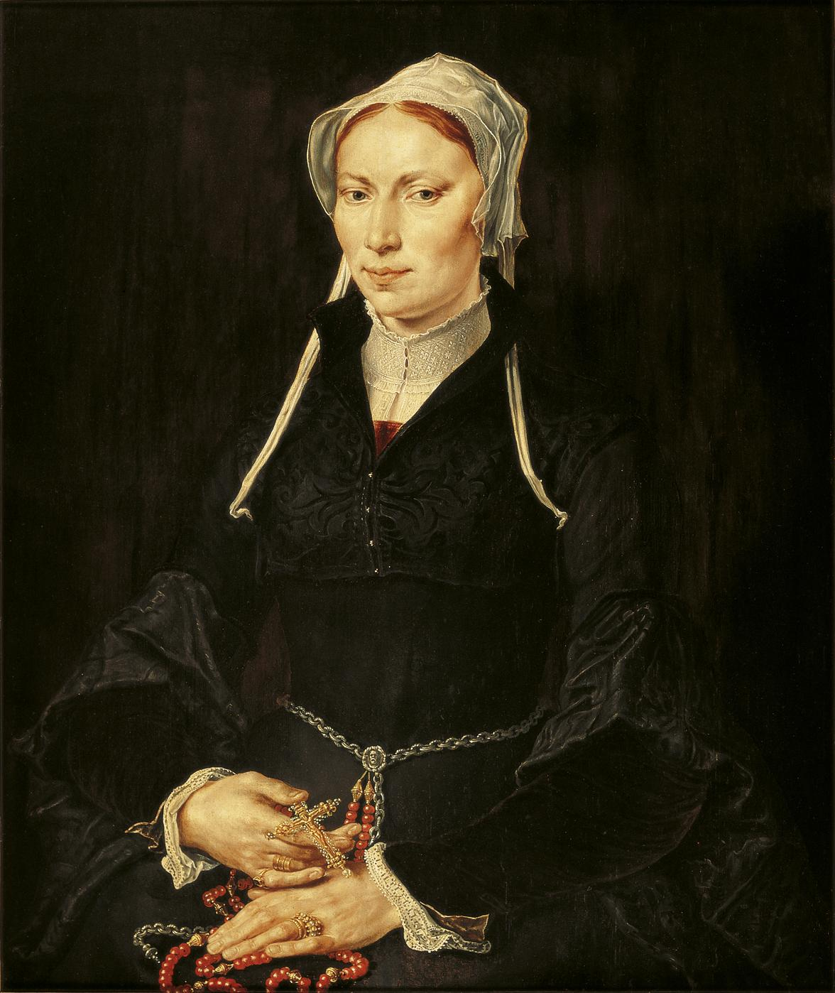 Painting of the nun Hillegond Gerritsdr, who became a nun in the St Anna cloister of Haarlem ca 1530. She was probably Marten van Heemskerck's sister-in-law. She was a wealthy Catholic and is portrayed with a rosary. When she died she left all of her possessions, including this painting, to the Hofje van Codde and Beresteyn, where it hung for centuries in the regent's room. Now on loan to the Frans Hals Museum in Haarlem.